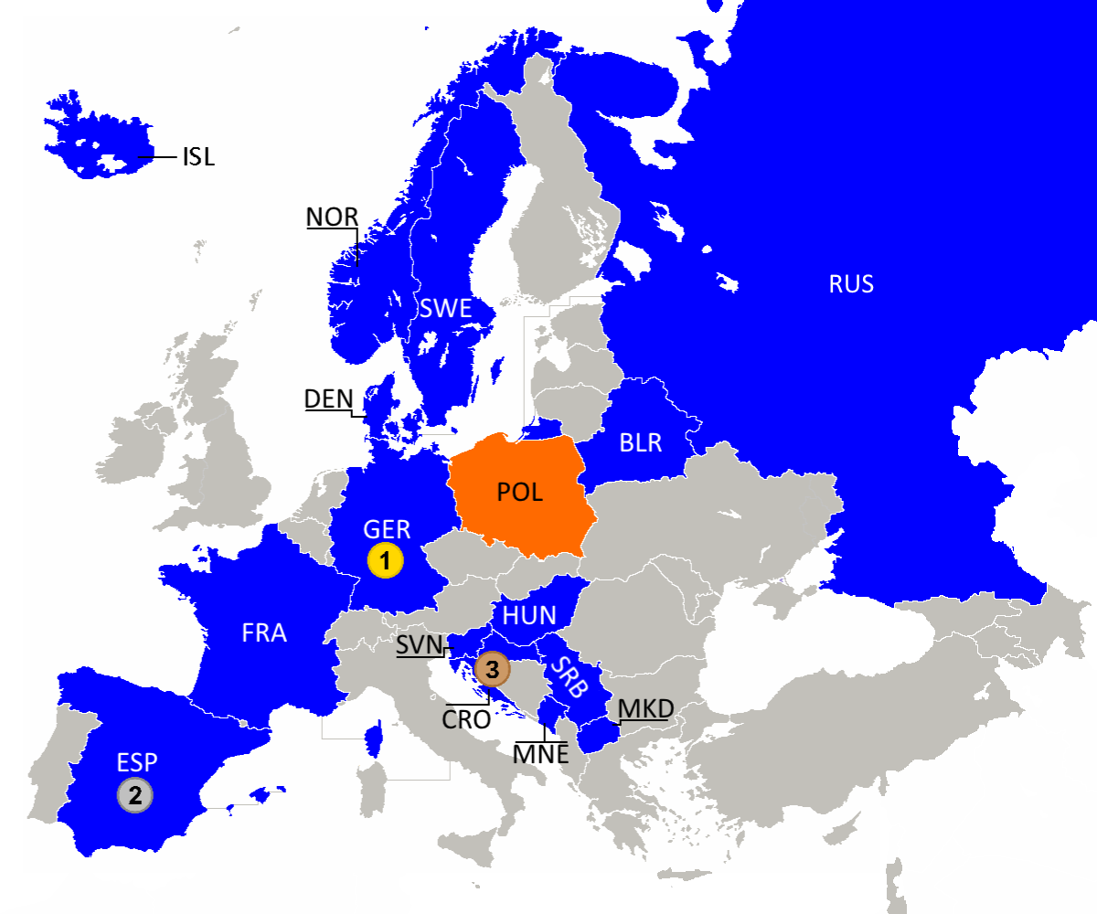 Participants and winners of the 2016 European Men's Handball Championship. Countries of the European Handball Federation Host country